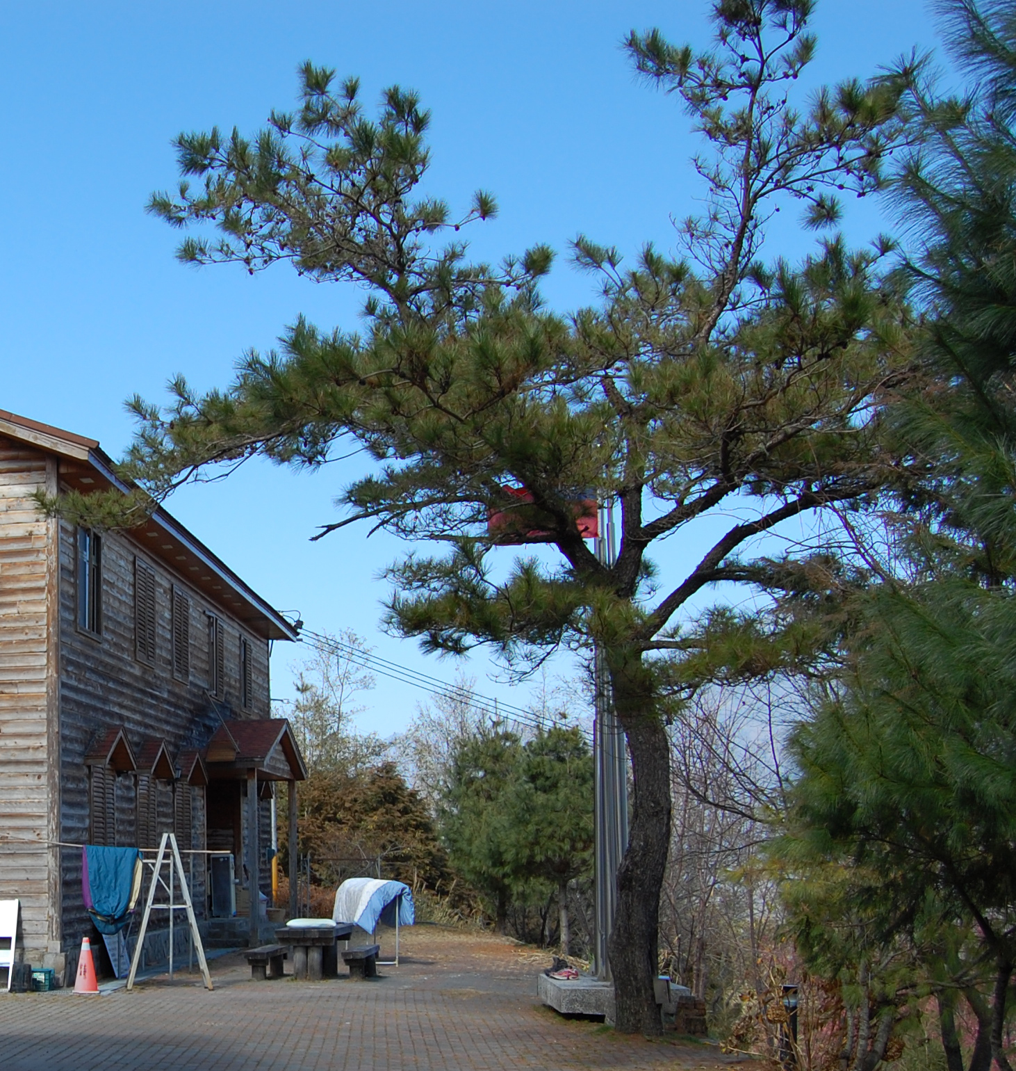 Pinus taiwanensis, Taiwan South Cross-Island Highway (No. 20)